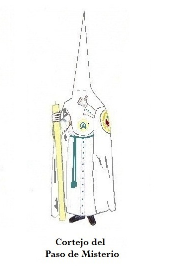 Nazareno de la Hdad. del Resucitado